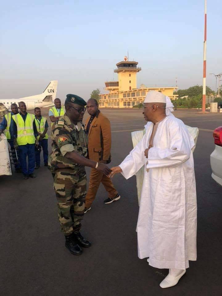 Malian Prime Minister Soumeylou Boubeye Maïga in official visit in Tessalit, 22 March 2018 (VOA/Kassim Traoré)